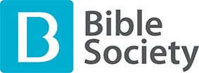 Bible Society logo